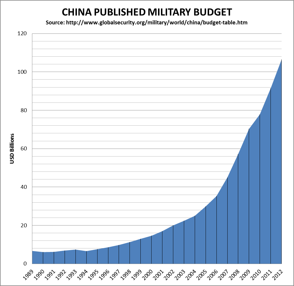 Chart depicting Chinese Published Military Budget. Data Source is